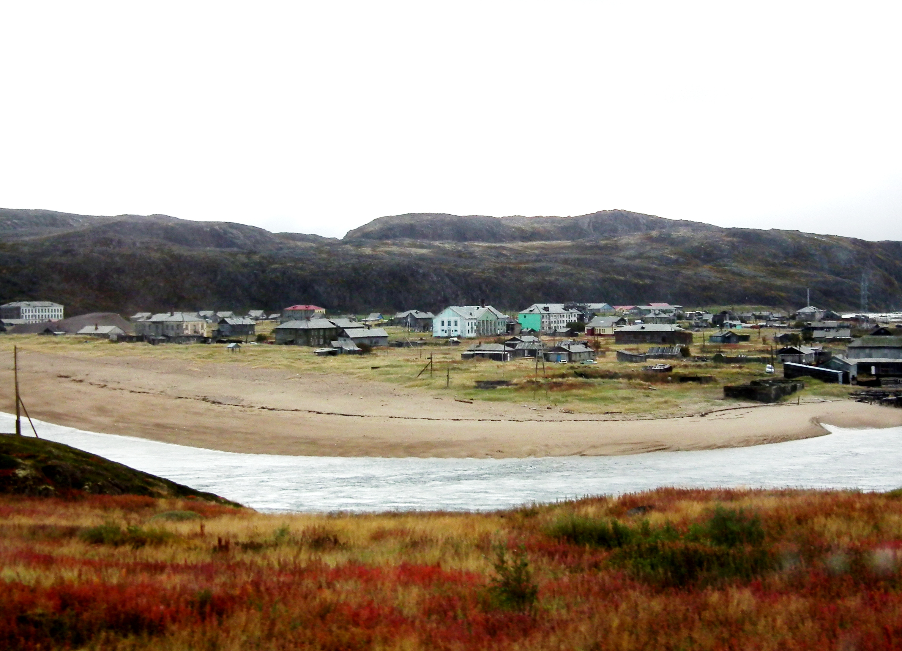 Teriberka, on the Kola Peninsula, 2010